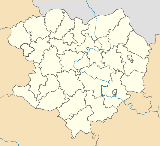 Location map of Kharkiv province, Ukraine with Kolomak raion